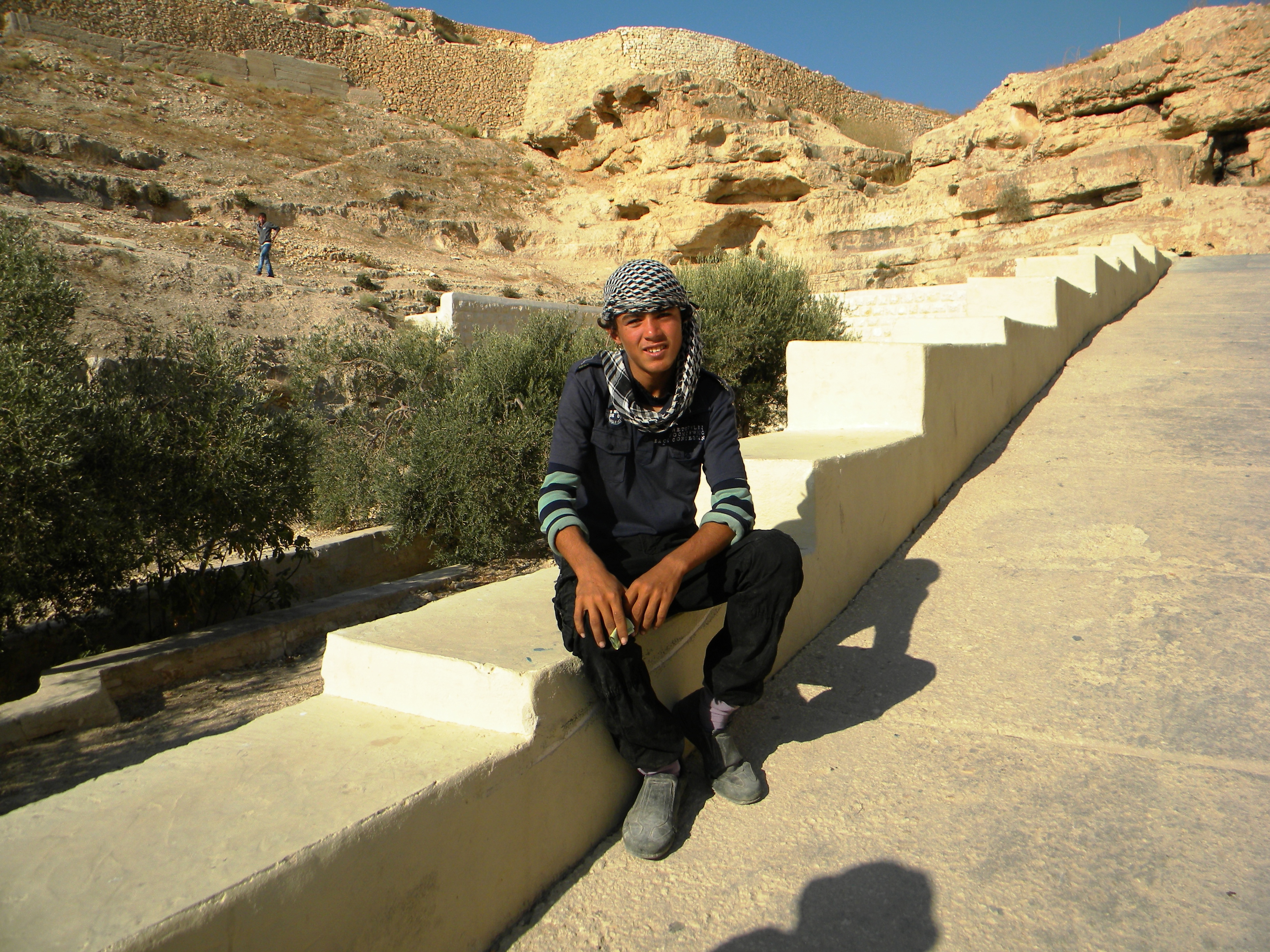 Mar Saba Greek Orthodox Monastery located near Bethlehem (Beduin child)